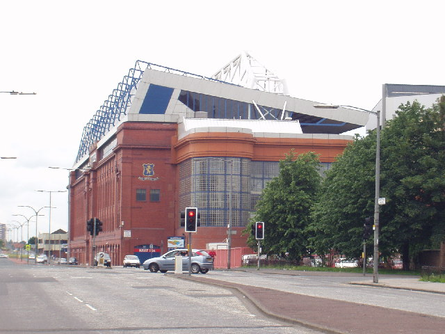 Ibrox Stadium. The home of Rangers Football Club